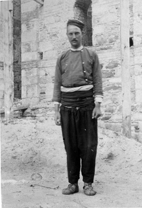 Zisis Ouzounis from Aposkepos in Thessaloniki